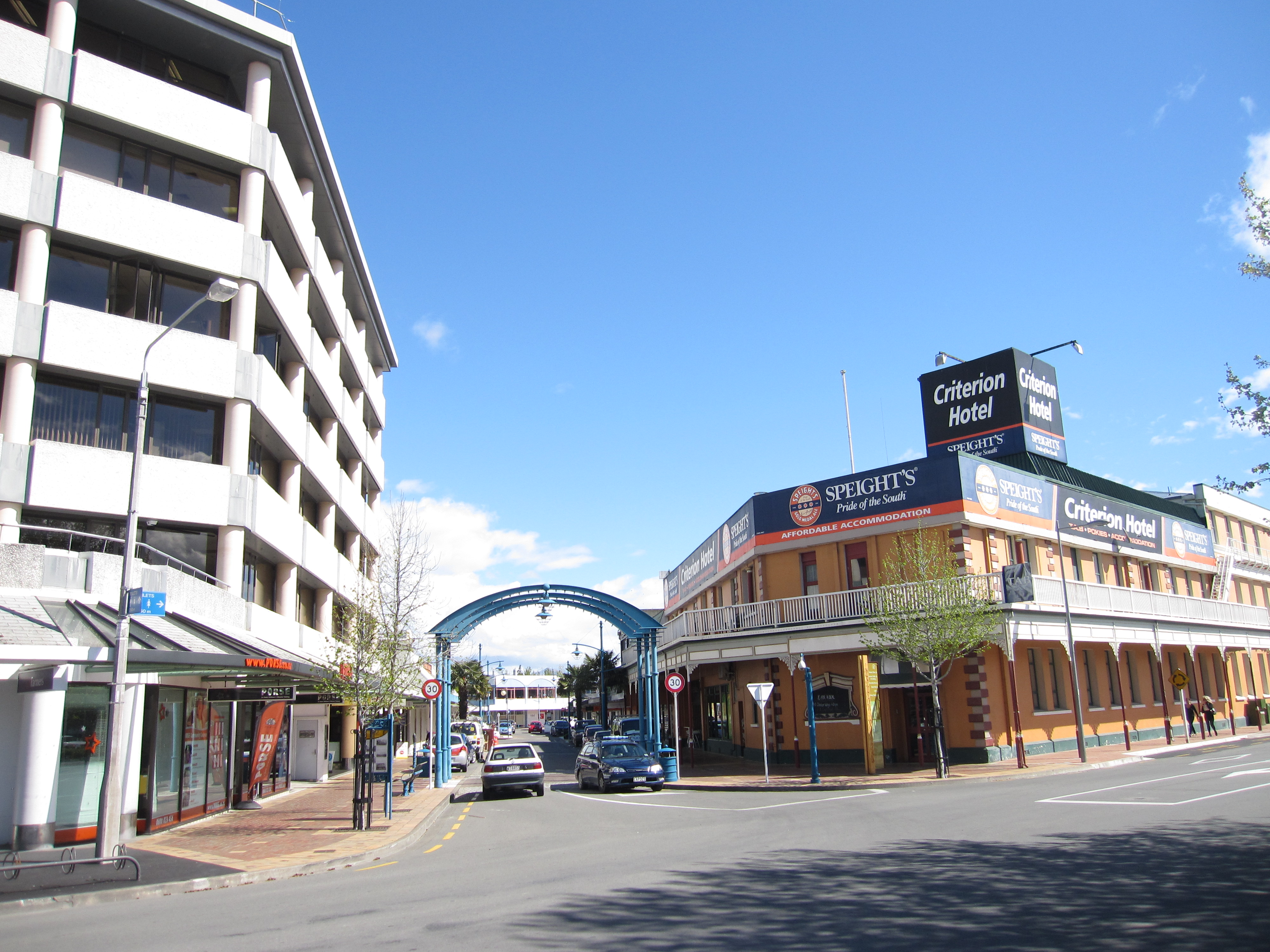 Downtown Blenheim in 2012